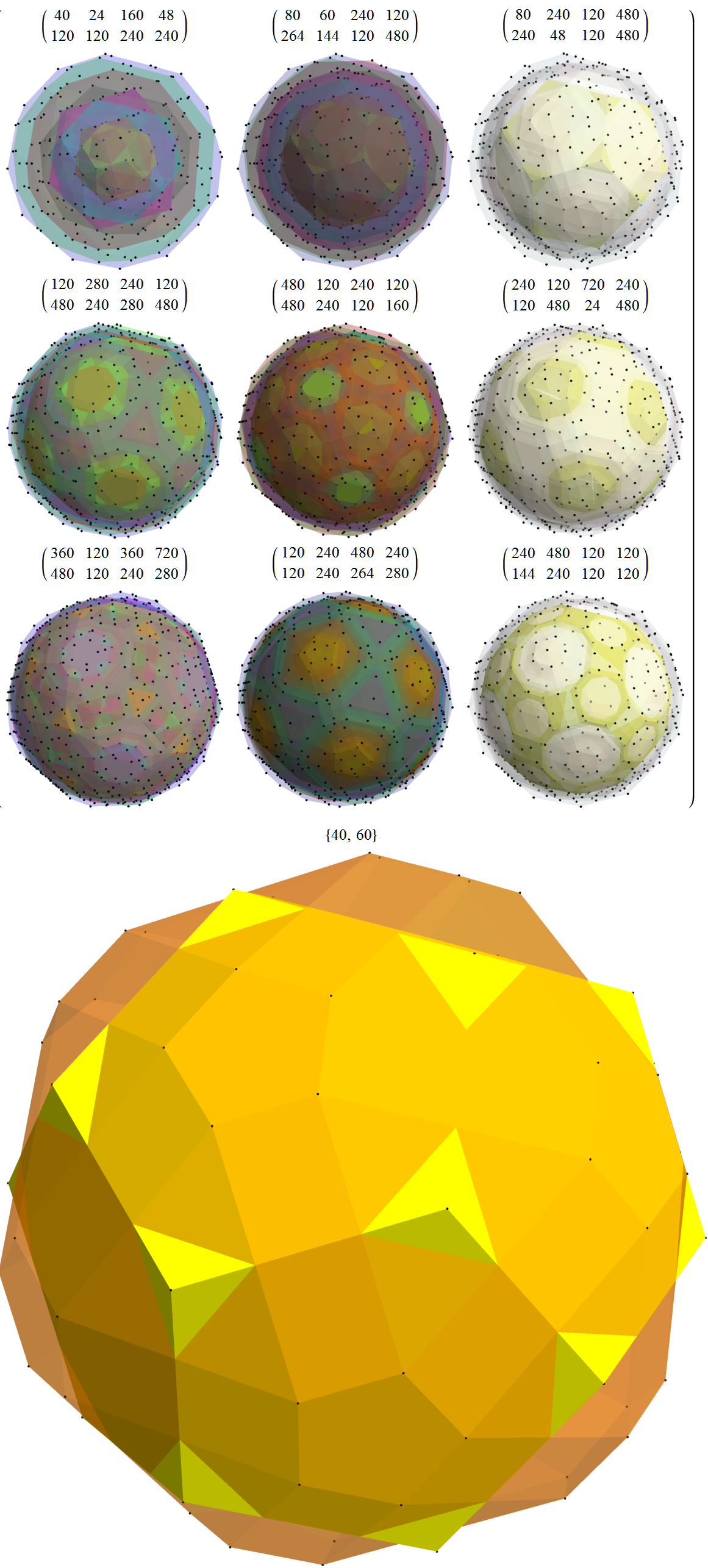 3D visualization of the E8 1_42 polytope with 17280 vertices showing 74 concentric hulls grouped by Norm'd distances from the origin from inner to outer varying opacity. This shows Platonic solid related structures (with vertex color coded vertex overlaps). The projection basis vectors are icosahedral giving H3 symmetry: u = (1, φ, 0, −1, φ, 0,0,0)v = (φ, 0, 1, φ, 0, −1,0,0)w = (0, 1, φ, 0, −1, φ,0,0) For more information, see [1]